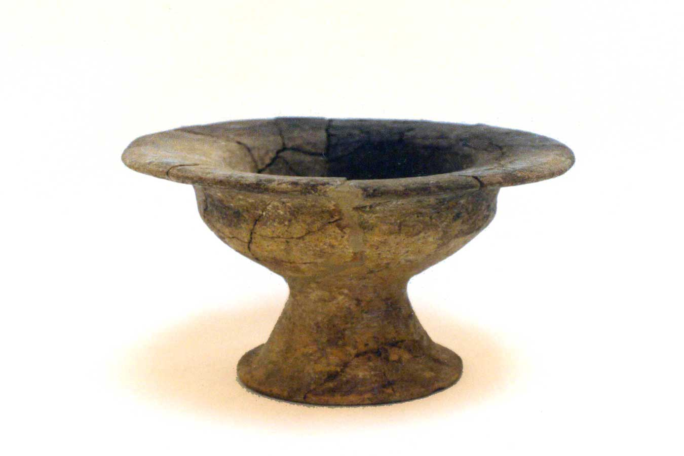 Early Iron Age Incense burner from L'Alt de Benimaquia (Denia, Alicante)